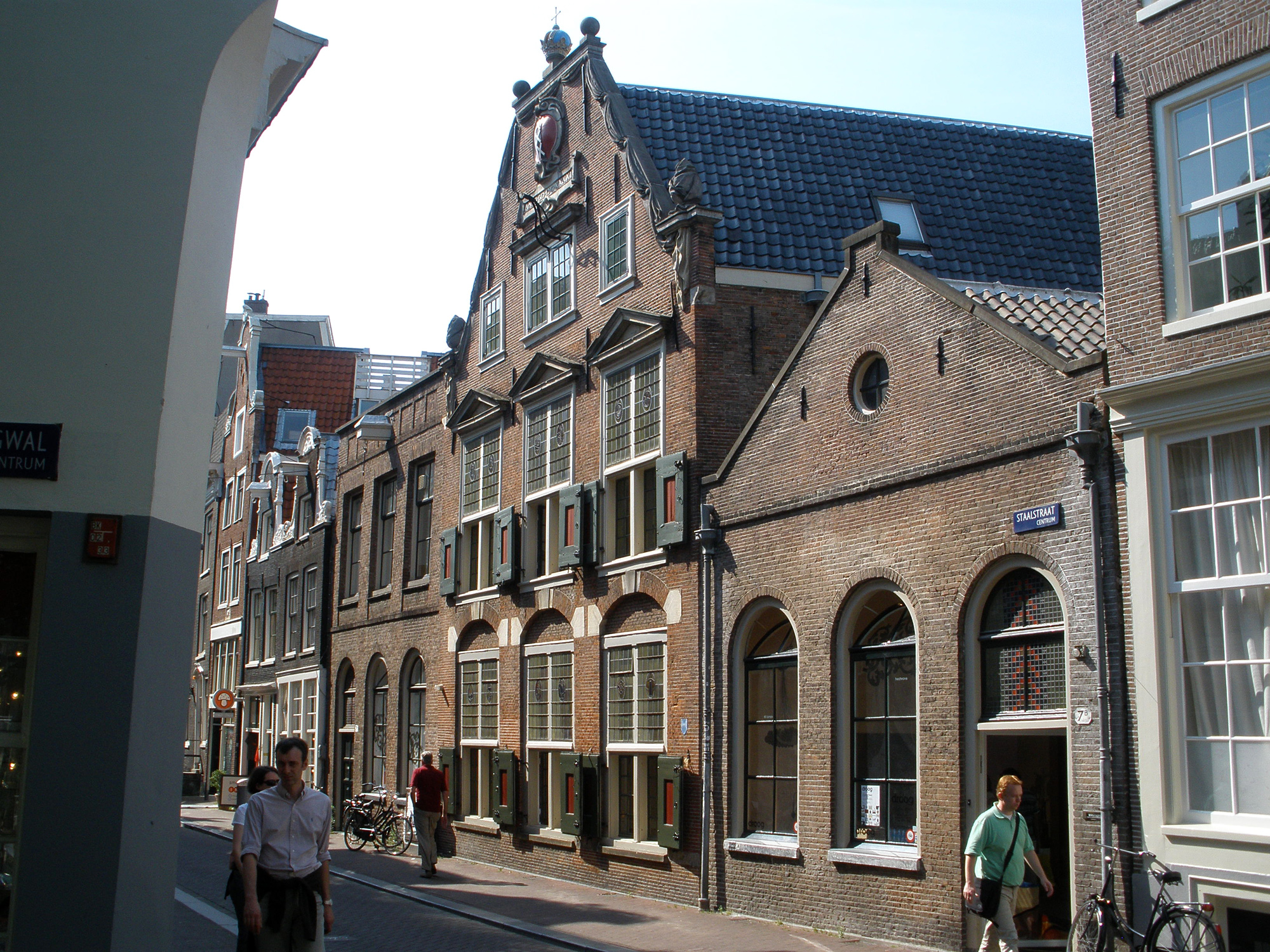 The Saaihal (1641) in the Staalstraat in Amsterdam, designed by Pieter de Keyser. The building is now used as a shop by Droog Design.